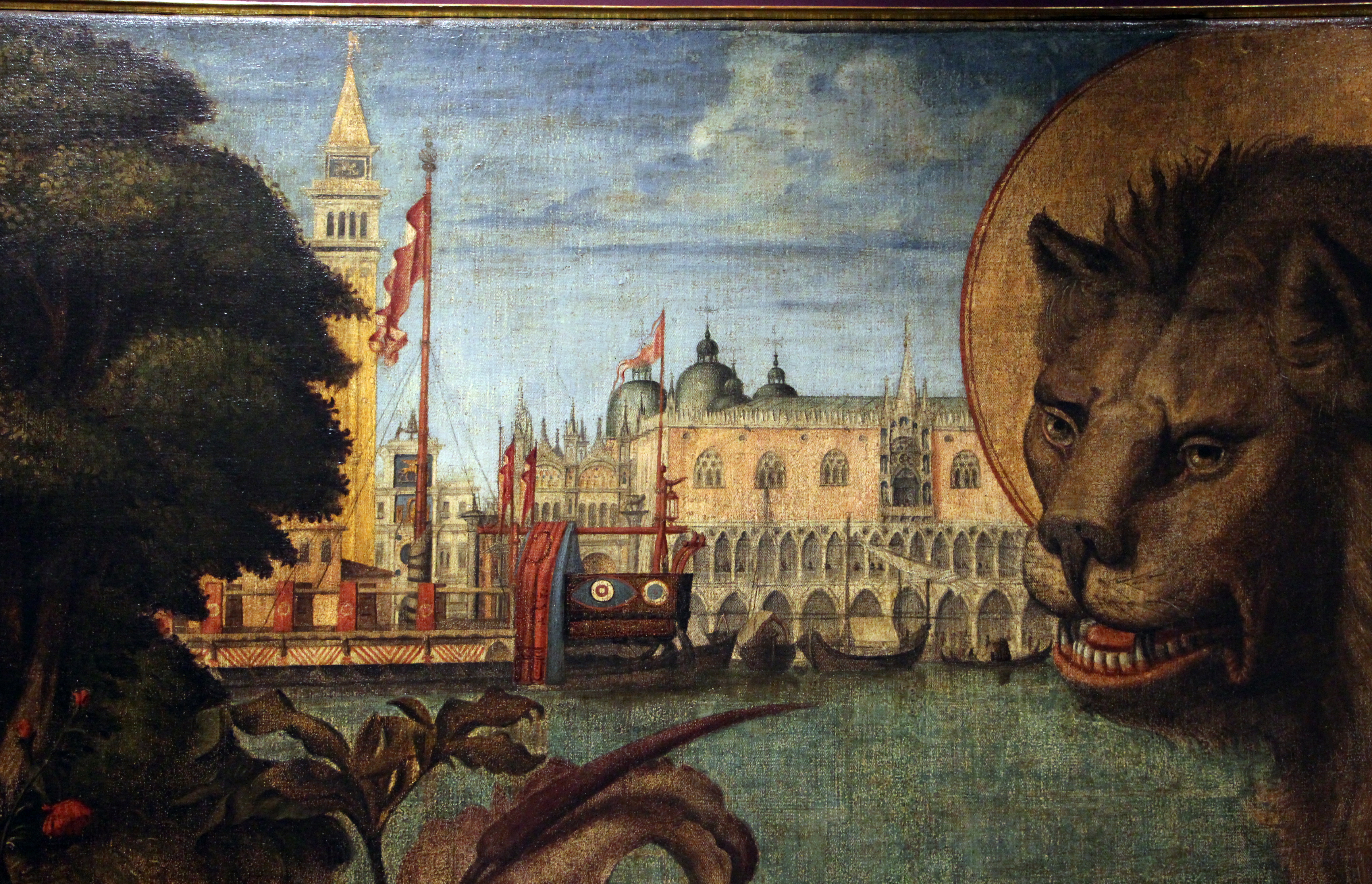 Interior of the Doge's Palace (Venice) - Sala Grimani